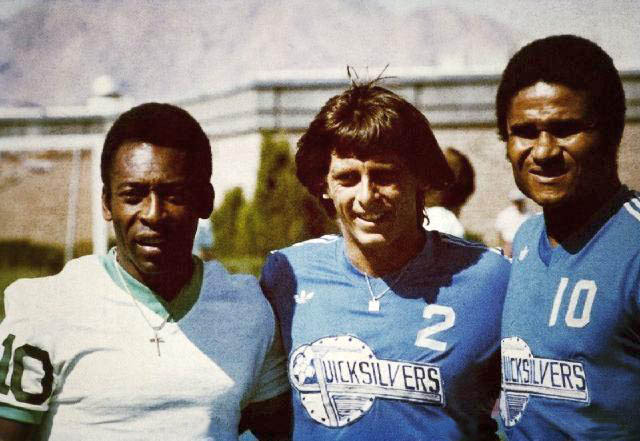 From left to right, Pelé, Brian Joy, and Eusébio. Taken April 1, 1977 before a game between the Las Vegas Quicksilvers and the New York Cosmos.